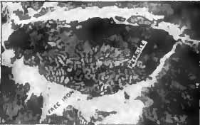 Photomicrograph of hypo-eutectoid steel